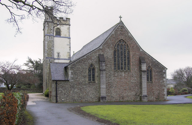 St Paul's parish church, Yelverton, Devon, seen from the west